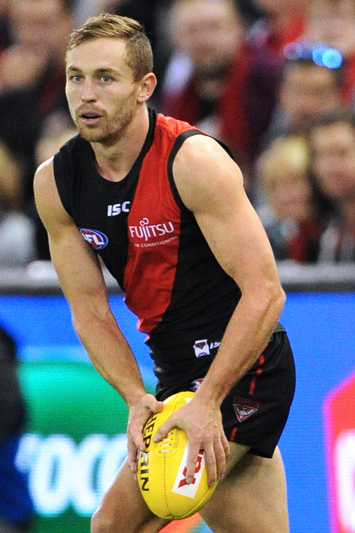 Devon Smith of Essendon during the 2018 AFL round 6 match between Essendon and Melbourne at Etihad Stadium on Sunday, 29 April 2018 in Melbourne, Victoria.